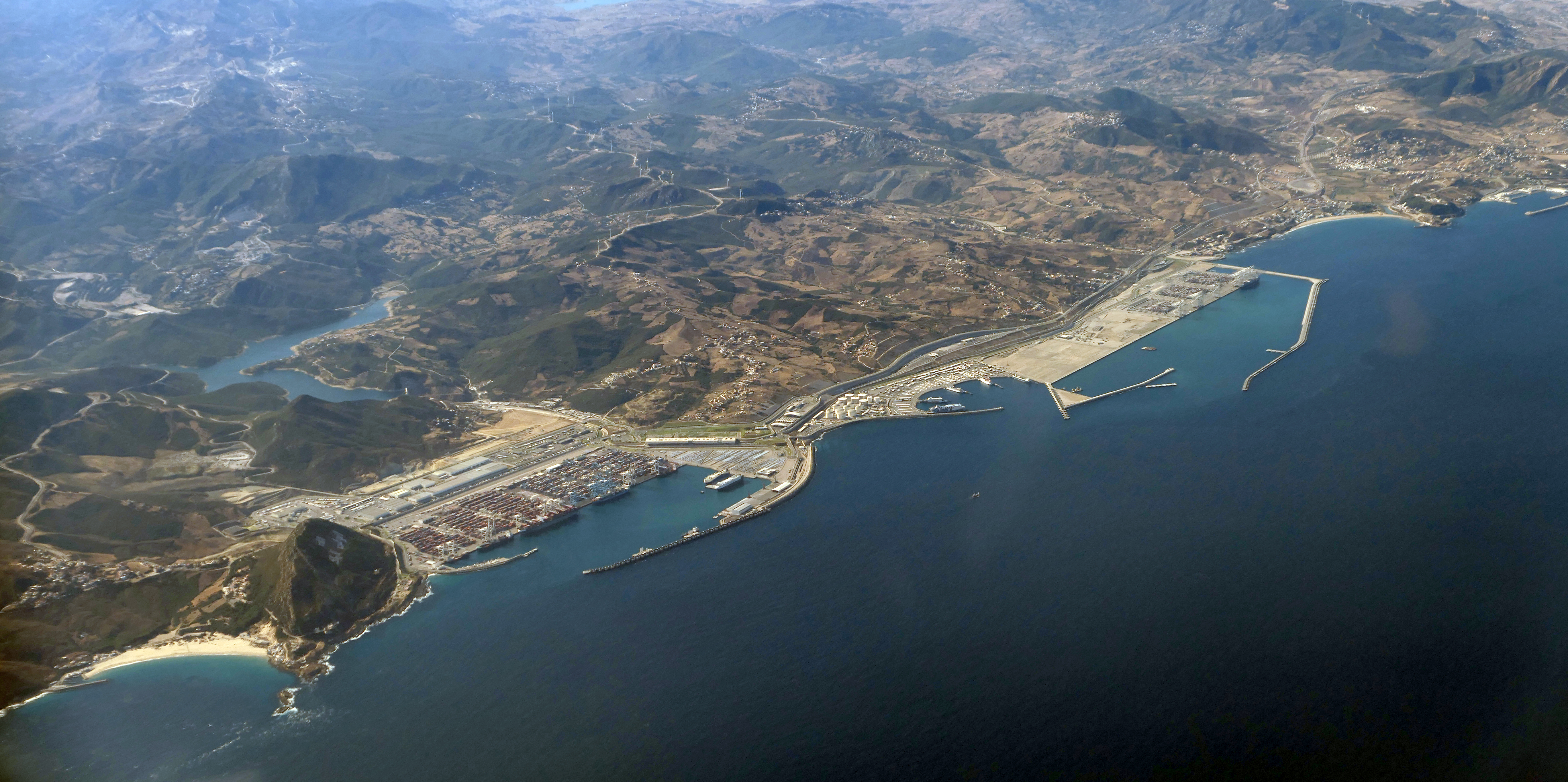 An aerial view of the port of Tanger-med on the north Moroccan coast.